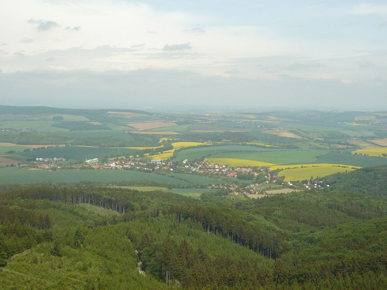 Brdo lookout tower, an example of view towards the northwest, in the valley village of Roštín.